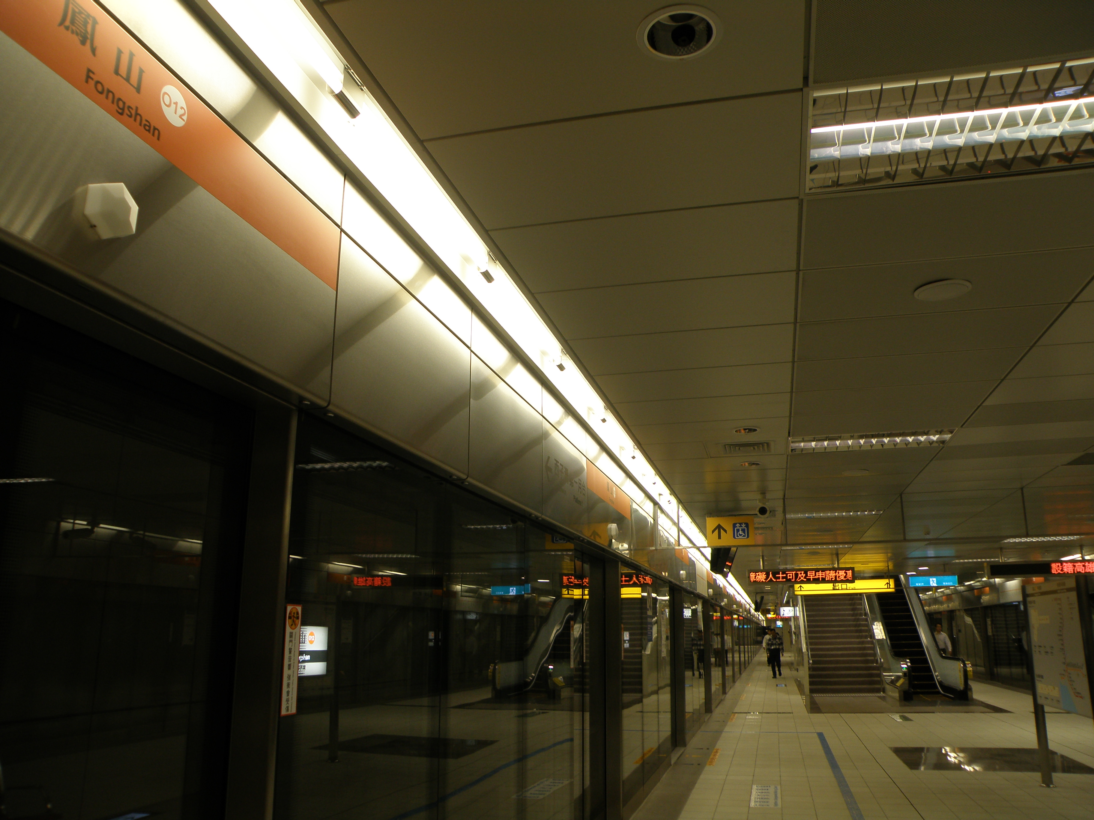 Platform of Fongshan West Station, Kaohsiung Mass Rapid Transit.